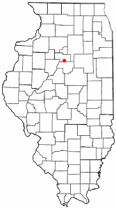 Category:Illinois_city_locator_maps Summary Location of Washburn within Marshall County and Illinois.